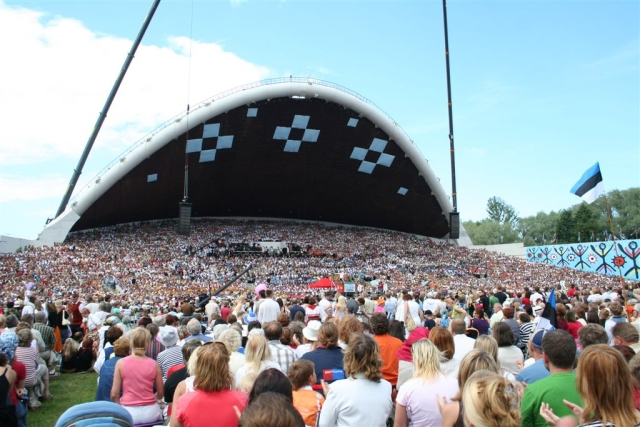 Estonian Song Festival in Tallinn